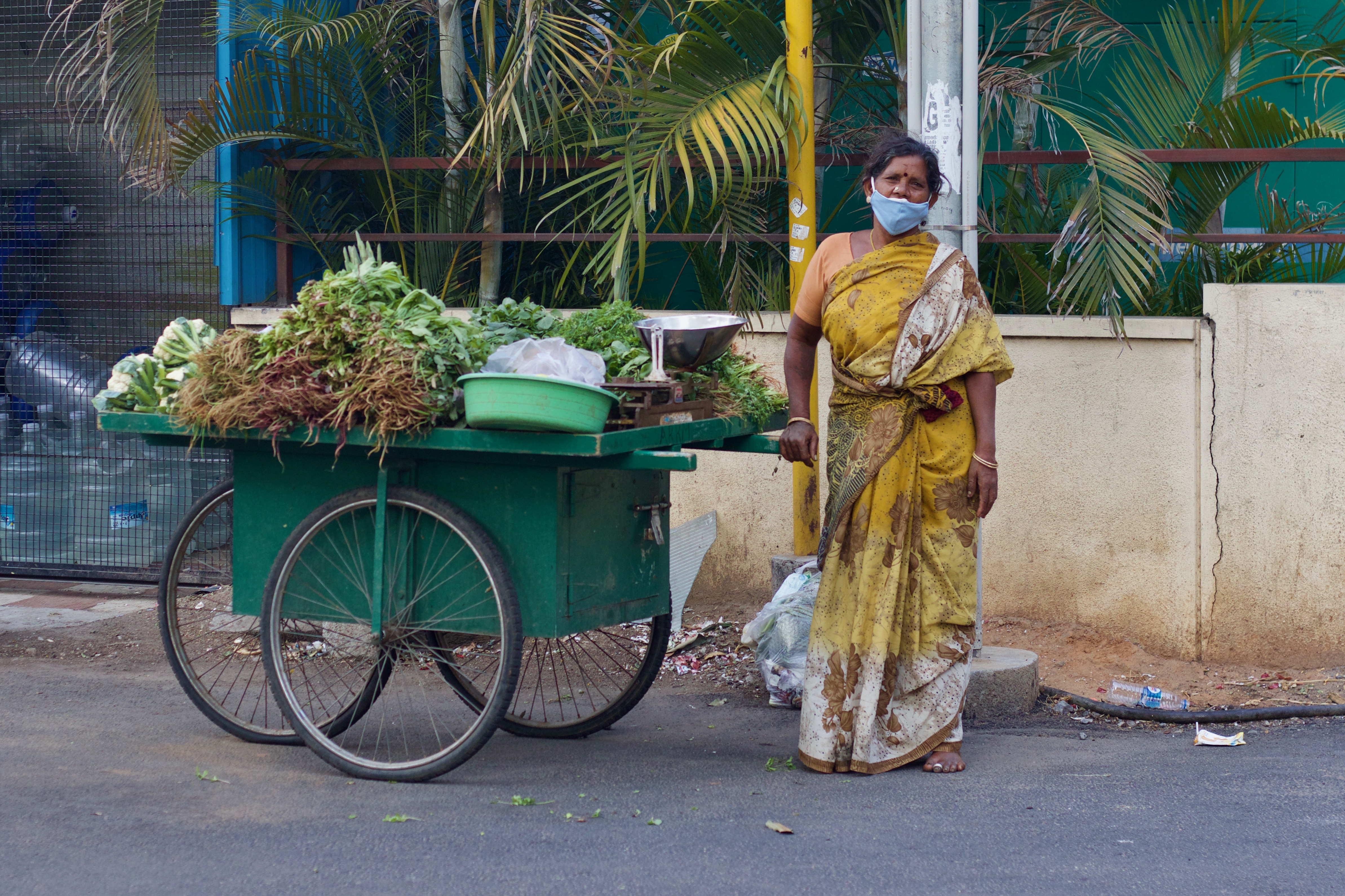 Life under lockdown. Bangalore, Spring 2020.